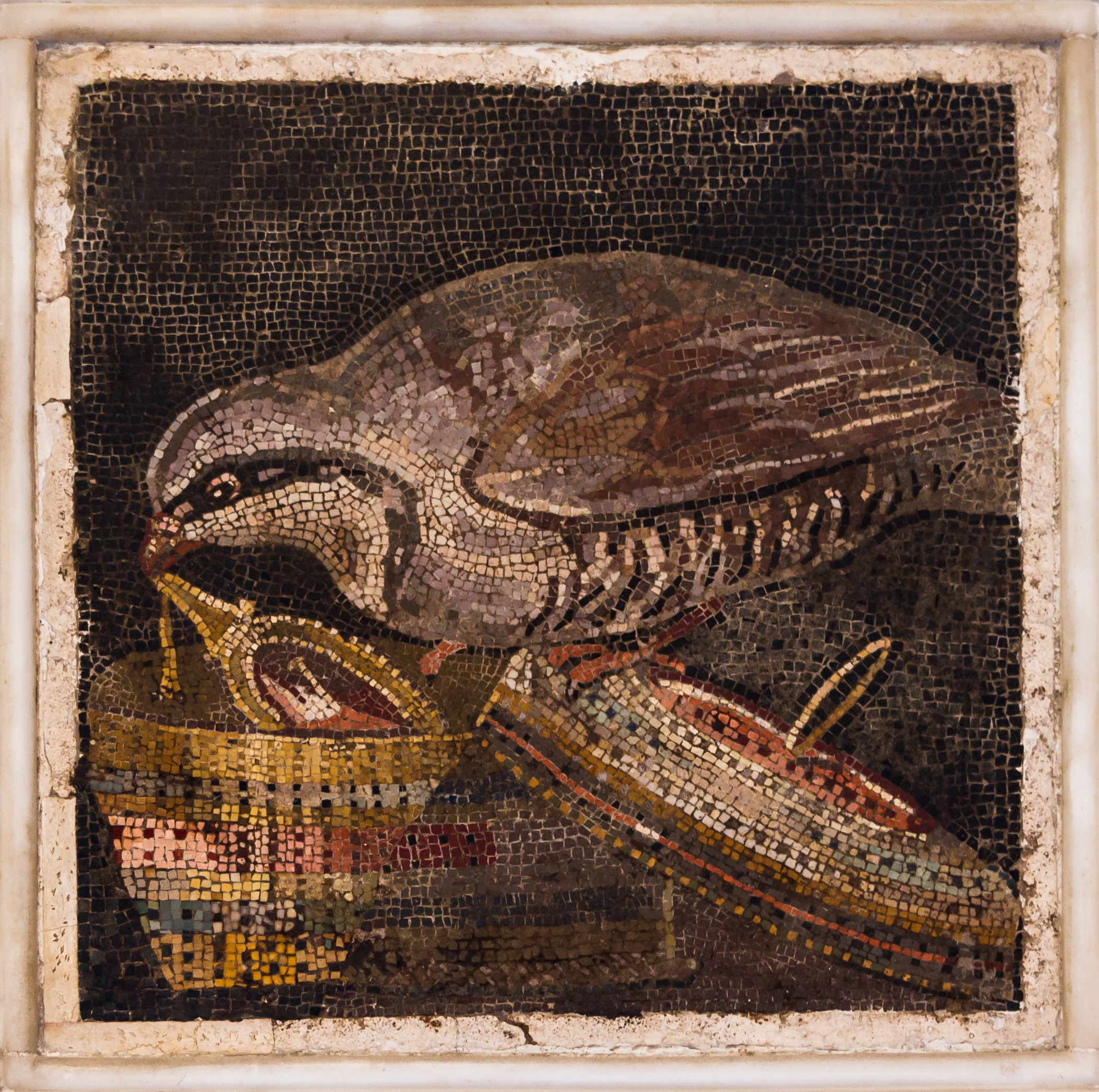 Mosaic of the "Thief partridge", Pompeii, Casa del Labirinto. Naples, Italy.ca.130 BCE